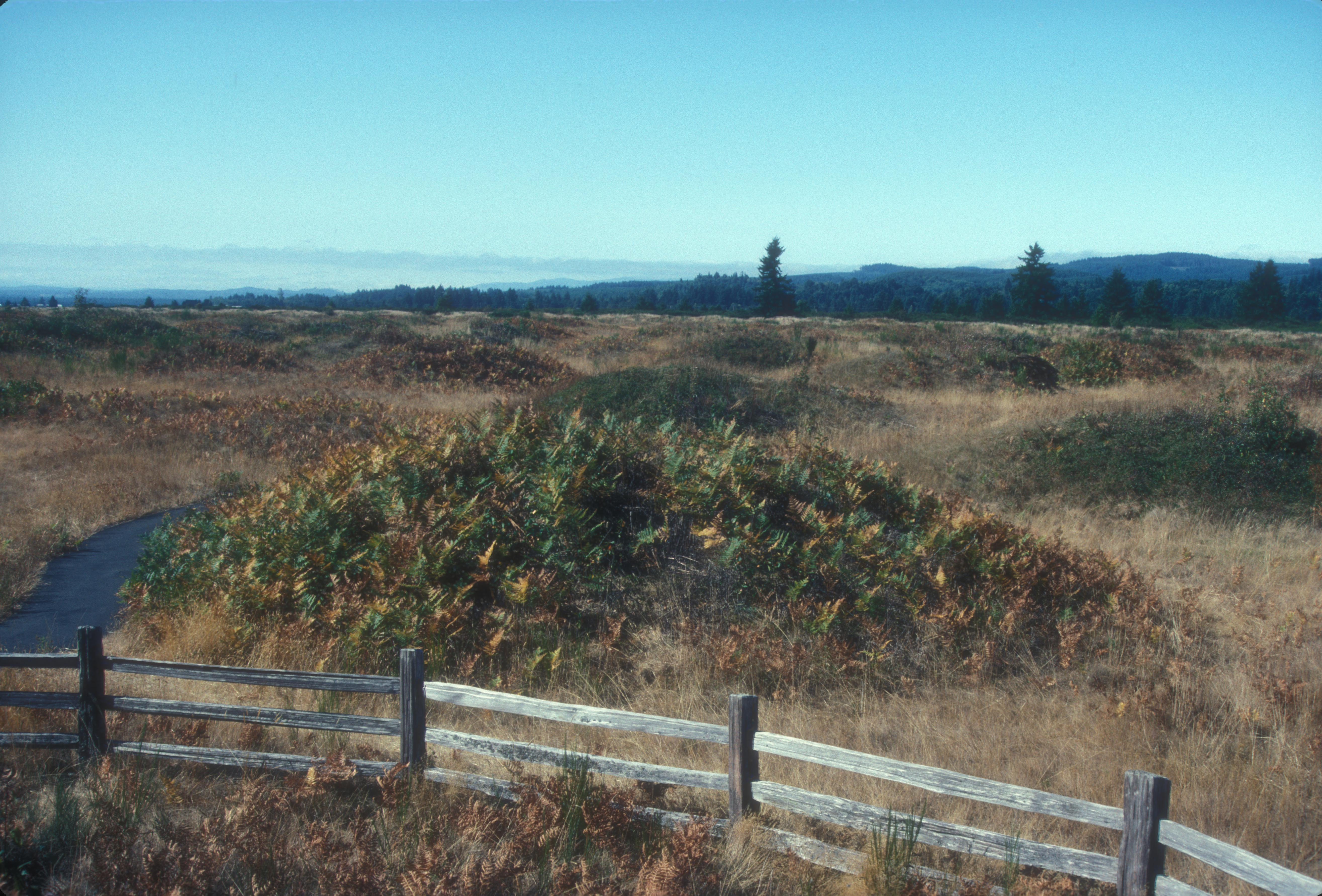 National natural landmark; irregular pattern of mounds which range in height from barely perceptible to 7 feet tall and ranged at one time over a widespread area of western Washington state. They are created over many generations by burrowing gophers.